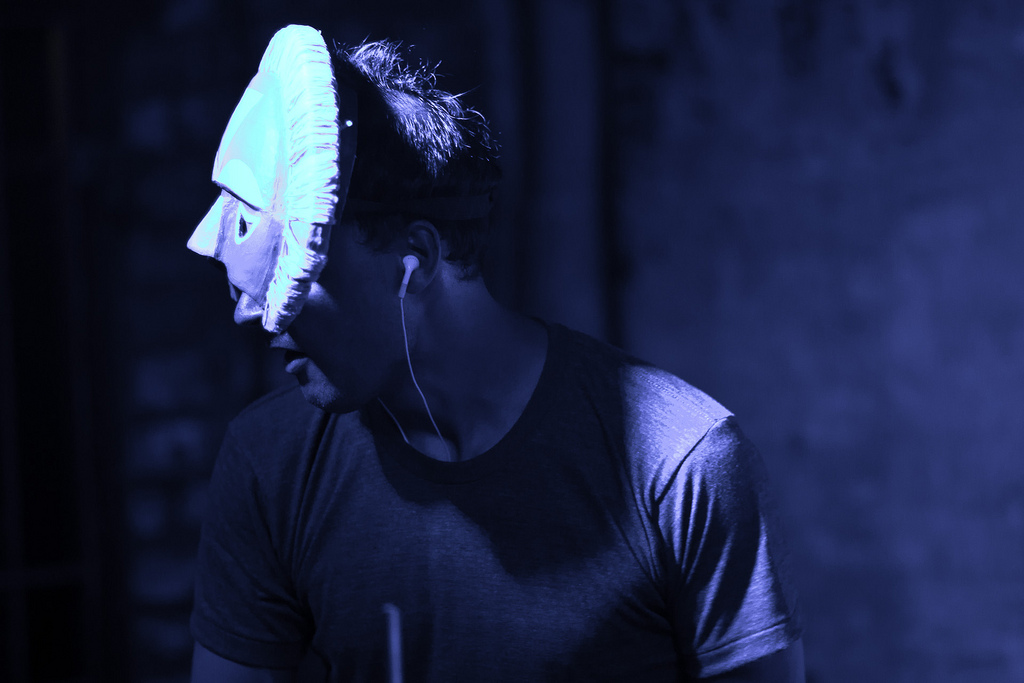 SBTRKT @ Liverpool Sound City